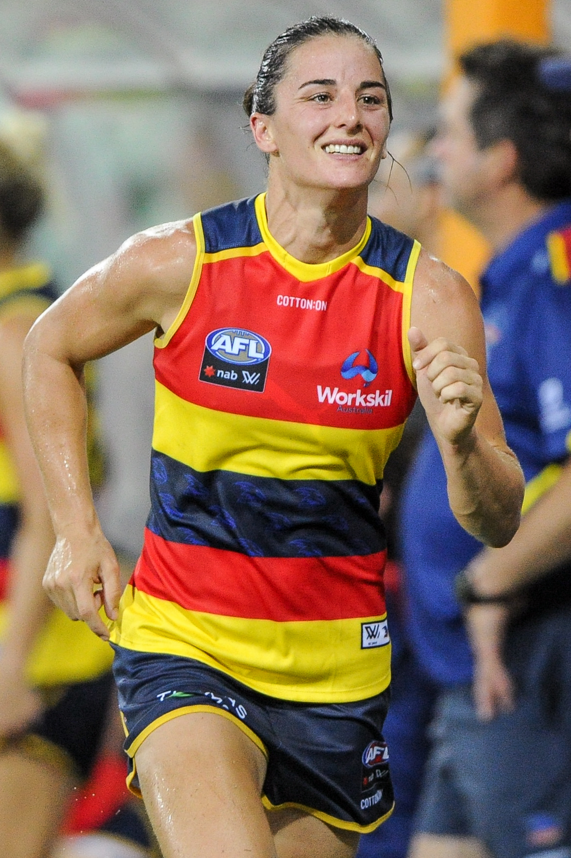 Angela Foley in the AFL Women's preseason match between the Adelaide Football Club and Fremantle Football Club on 20 January 2018 at TIO Stadium.